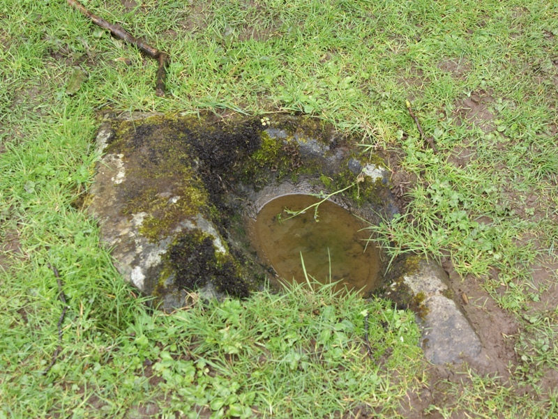 Kildalton Church, Kildalton, Islay, Argyll and Bute, Scotland. Font (?)